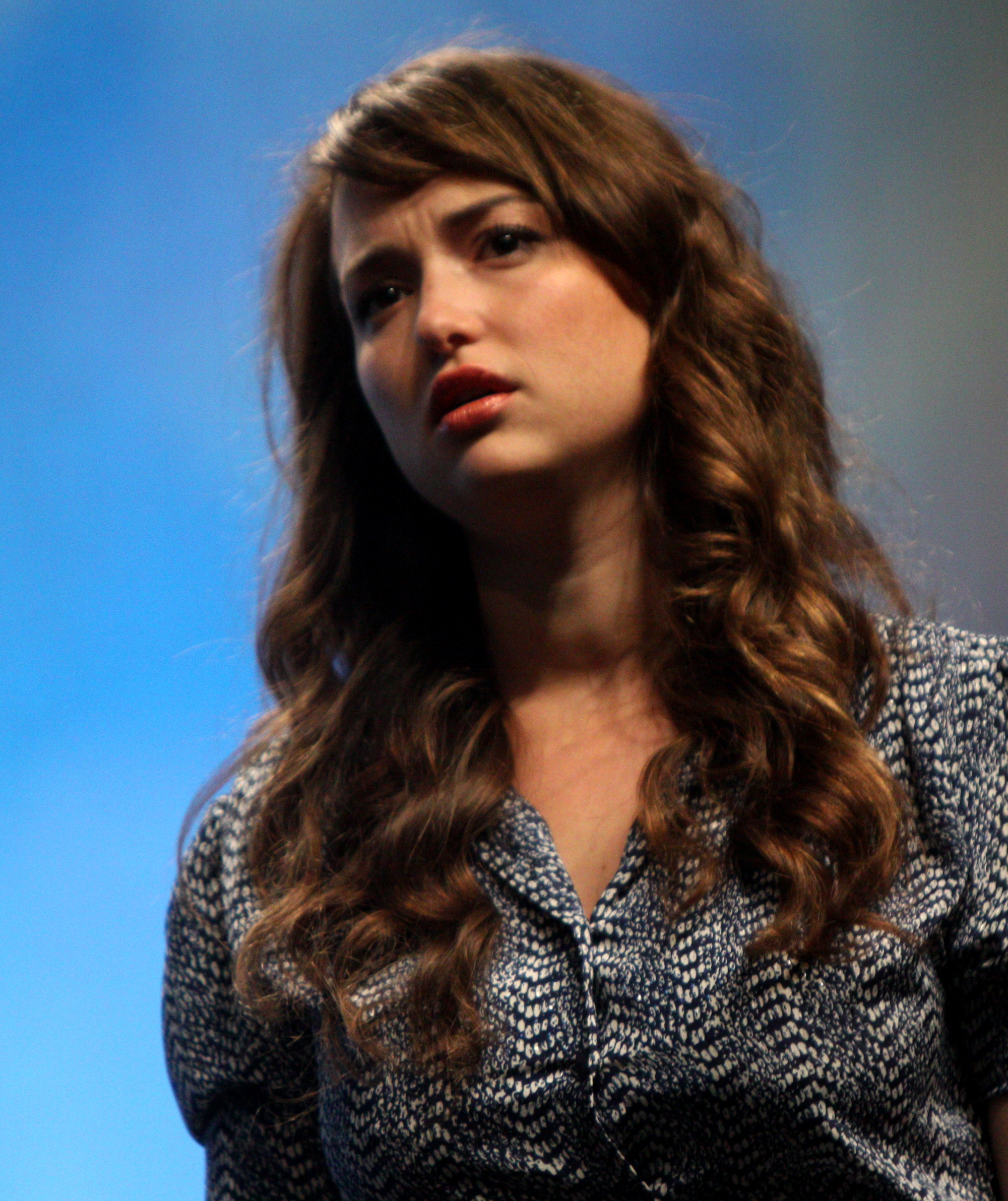 Actress Milana Vayntrub speaking at VidCon 2012 at the Anaheim Convention Center, Anaheim, California, June 30, 2012